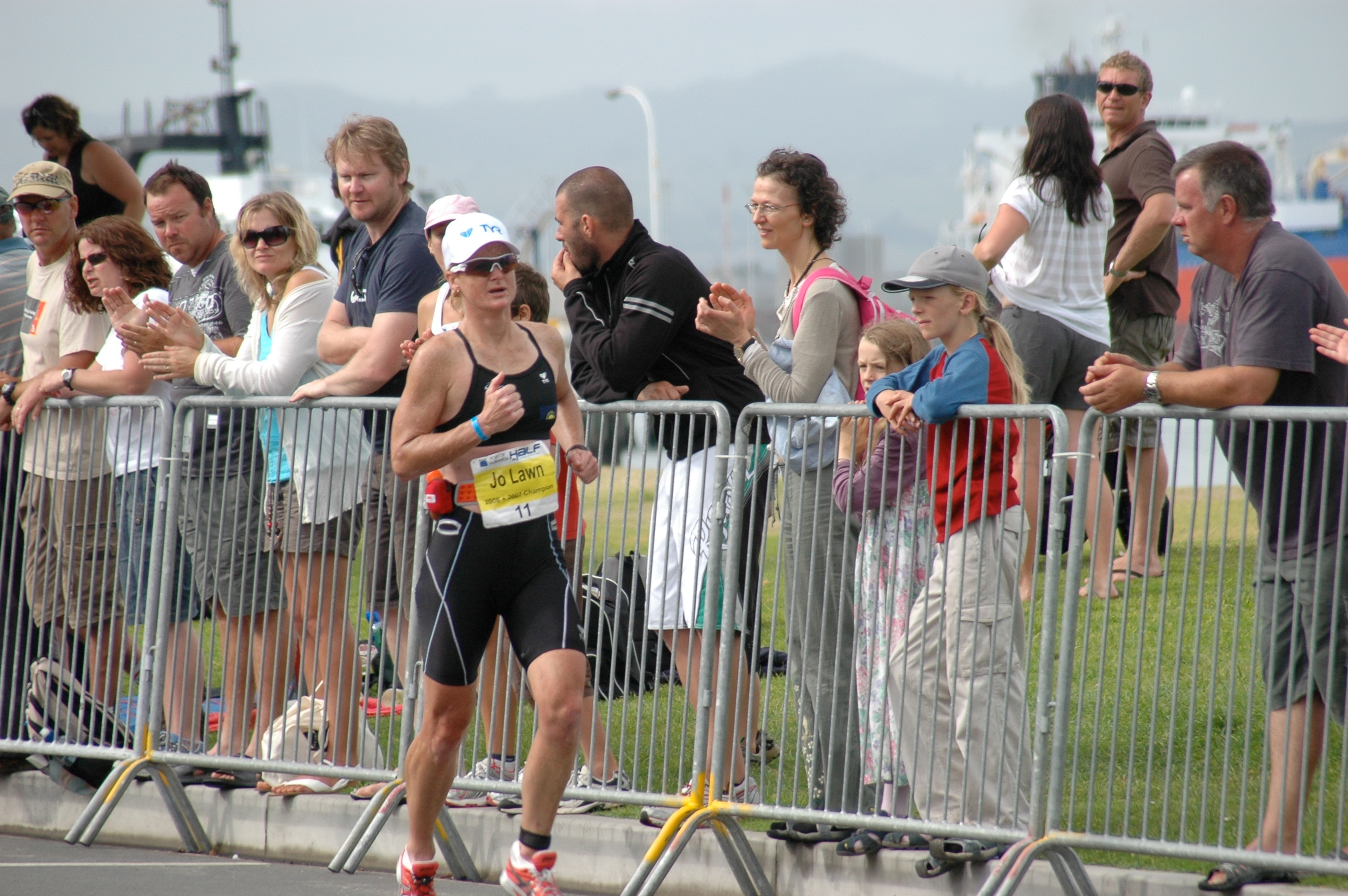 Joanna Lawn - Port of Tauranga Half Ironman 2009